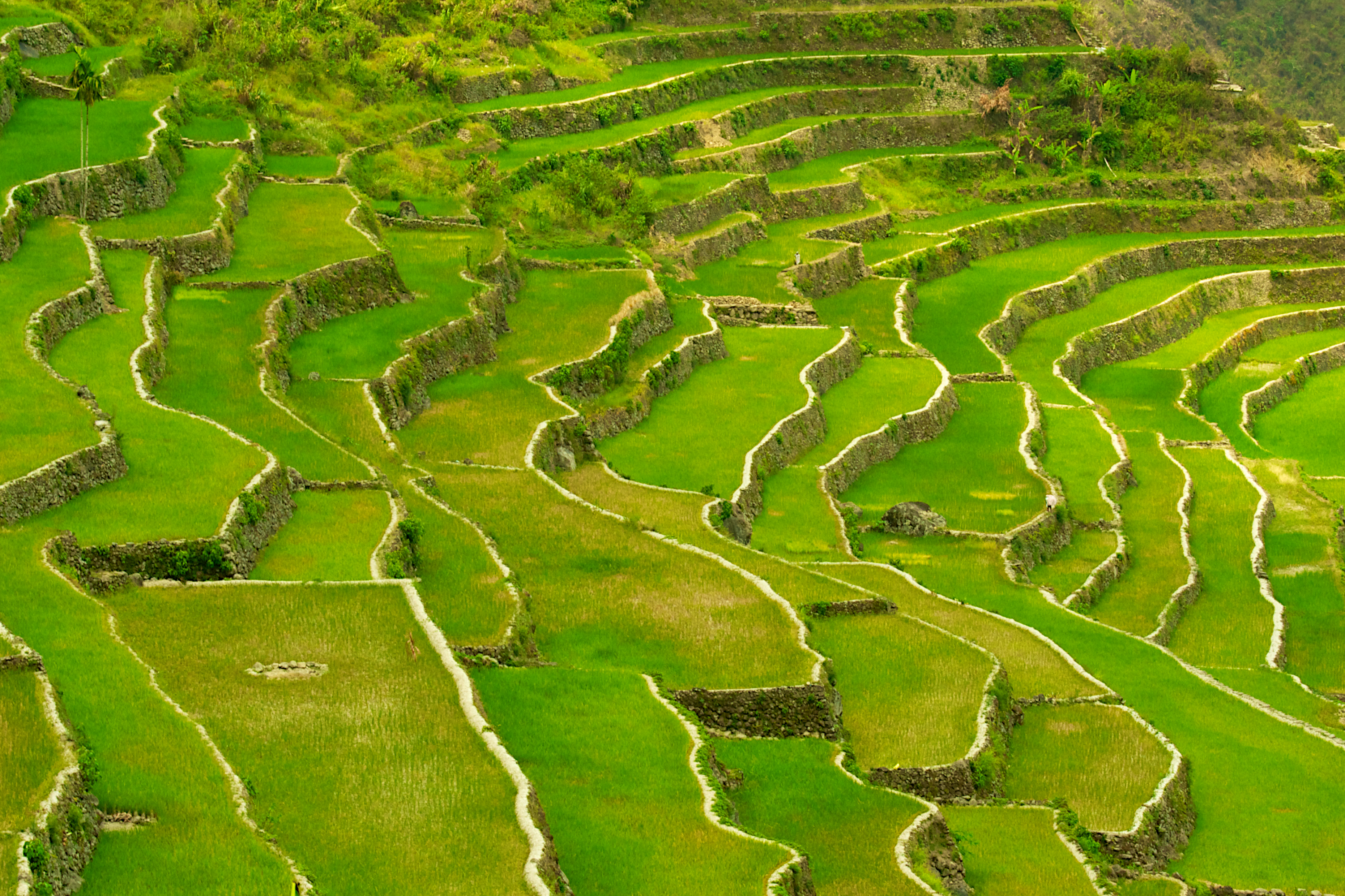 The Batad Rice Terraces' stairway to heaven. This is a picture of the most beautiful among the rice terraces in the Ifugao province. Built with limestones stretching to hundreds of kilometers long that looks like a gargantuan amphitheater from afar.